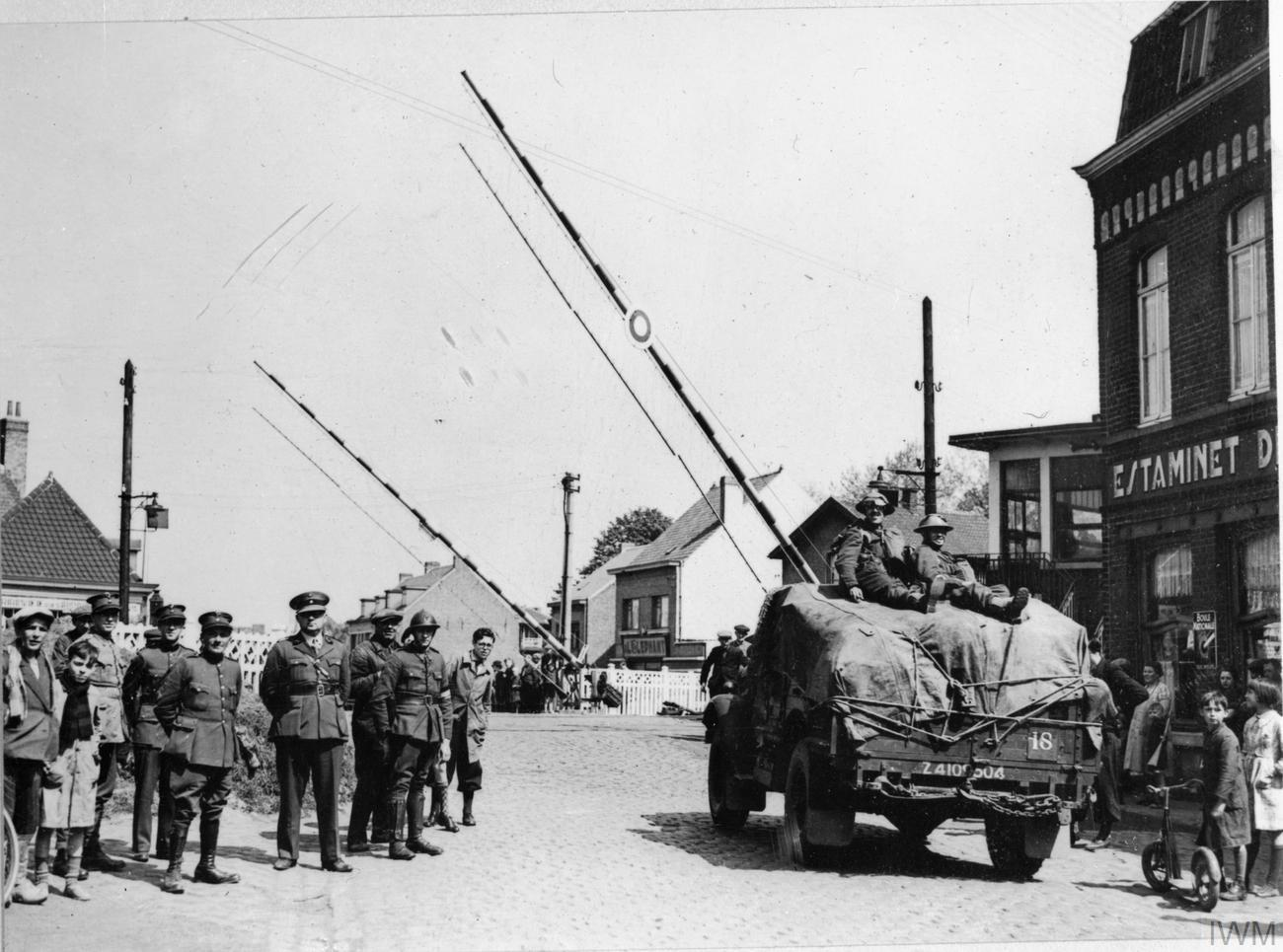 The British Army in France and Belgium 1940 British trucks in Herseaux, as the BEF crosses the border into Belgium, 10 May 1940.